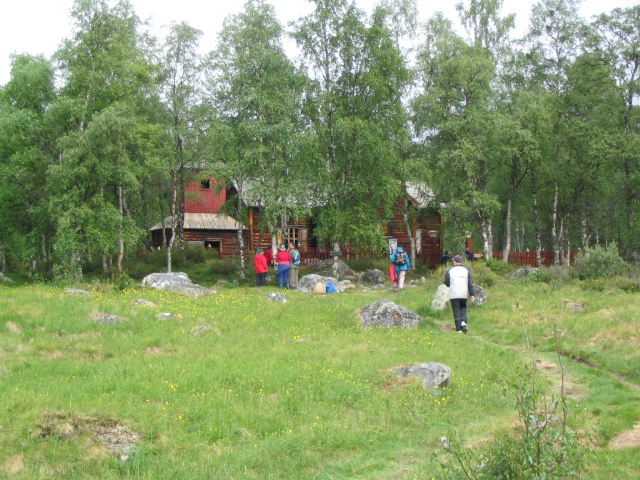 Church in the wilderness, Pielpajärvi, Inari, Finland.